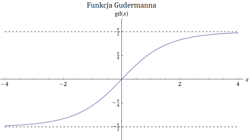 Gudermann function.